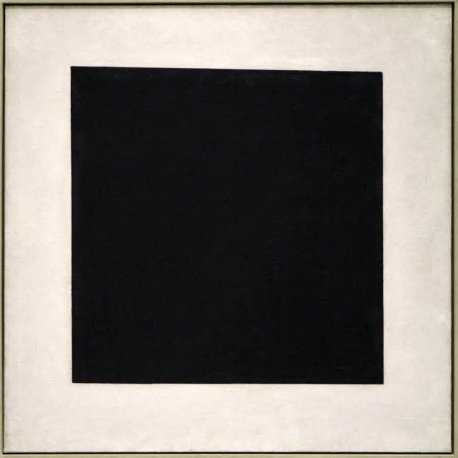 Black Square. 1929.